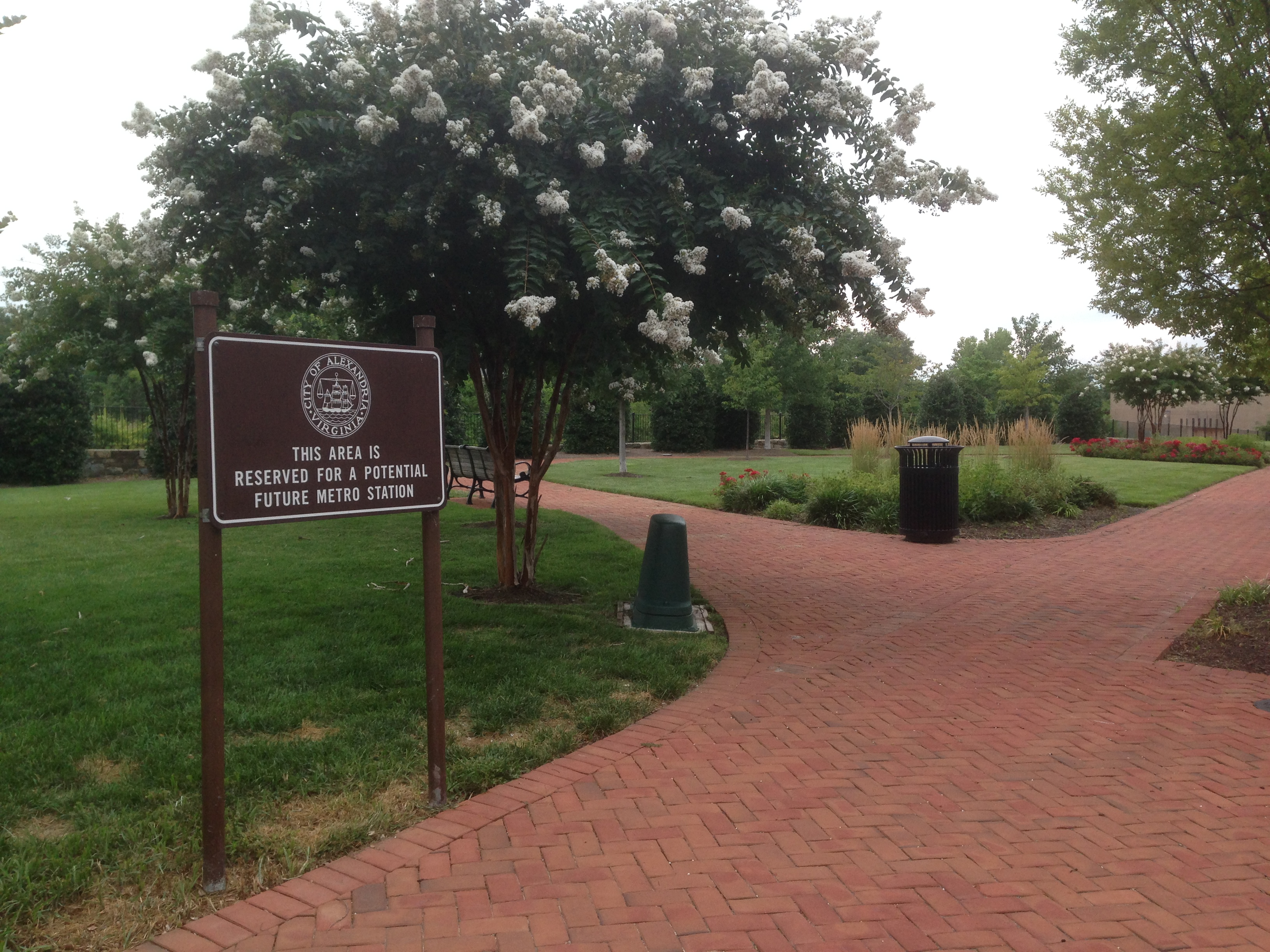 A sign at the north end of the Potomac Greens development in Alexandria, Virginia marks a potential location for the future Potomac Yard WMATA station.